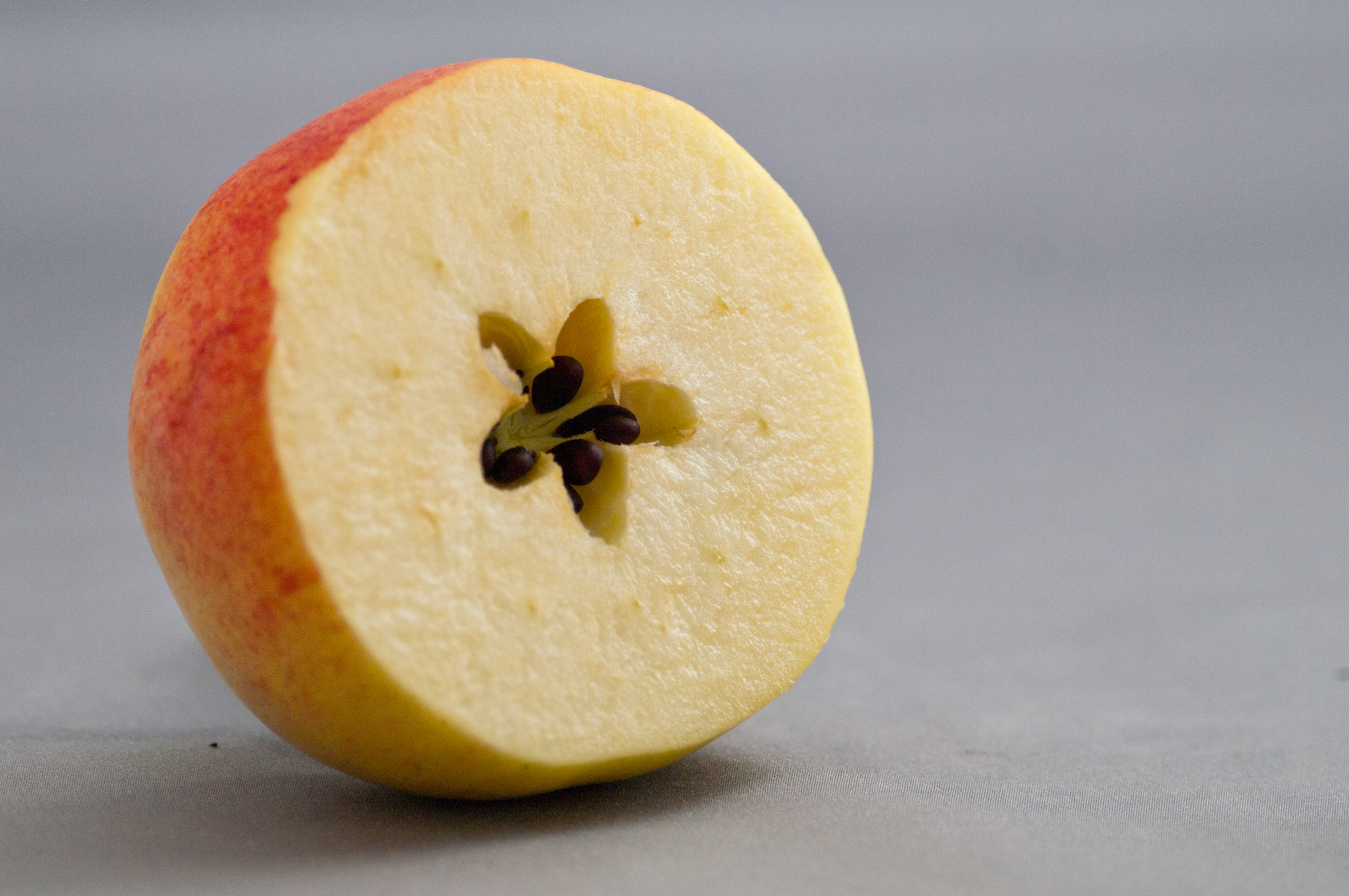 Gala apple cut in half.